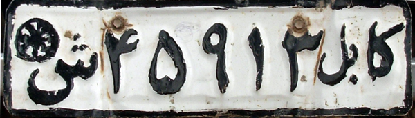 Older Afghan license plate of Ghor Province.